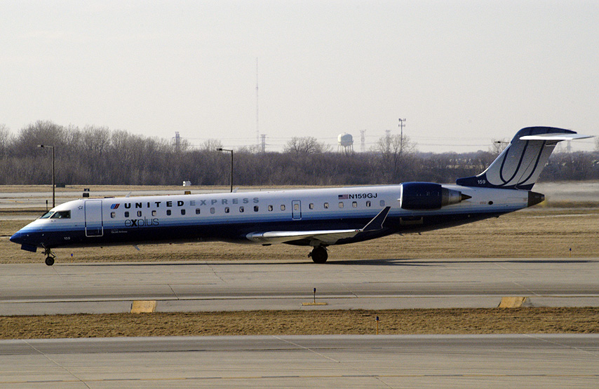 United Express operated by GOJet Bombardier CRJ-700. Taken at ORD from UA's Red Carpet Lounge.